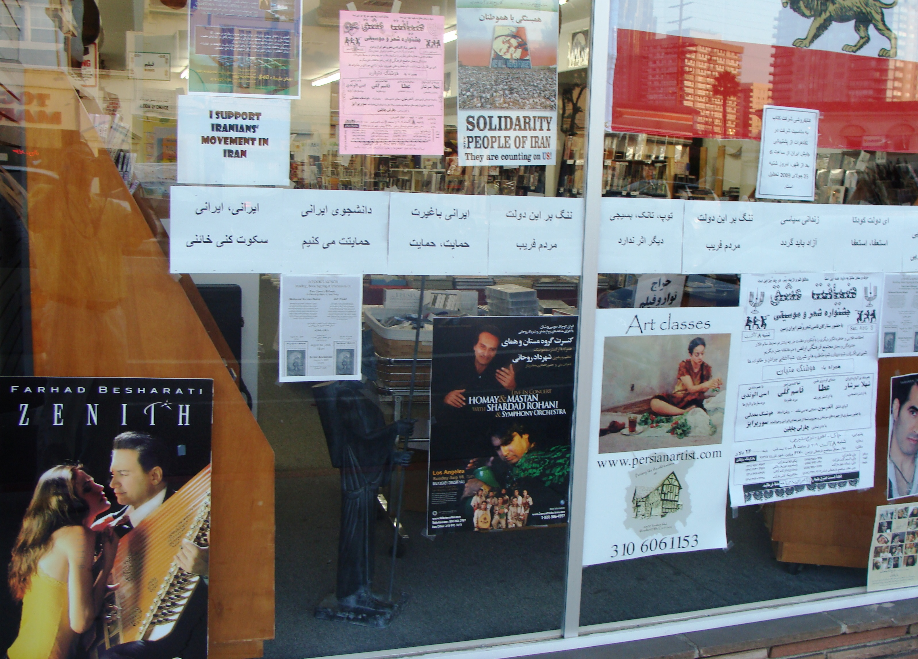 Tehrangeles, Westwood Blvd, Los Angeles.